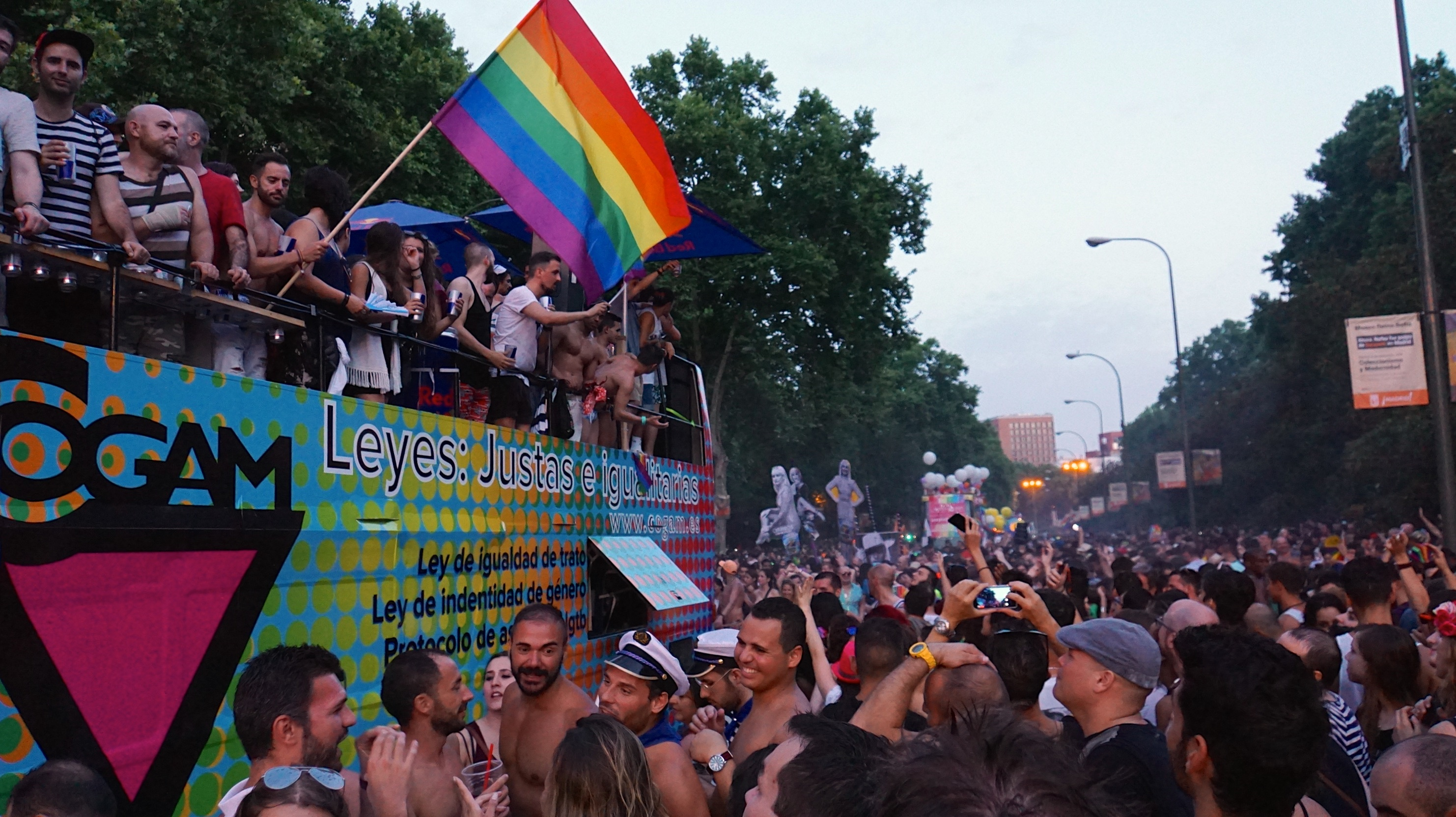 2015.07.04 Madrid Pride Orgullo 2015